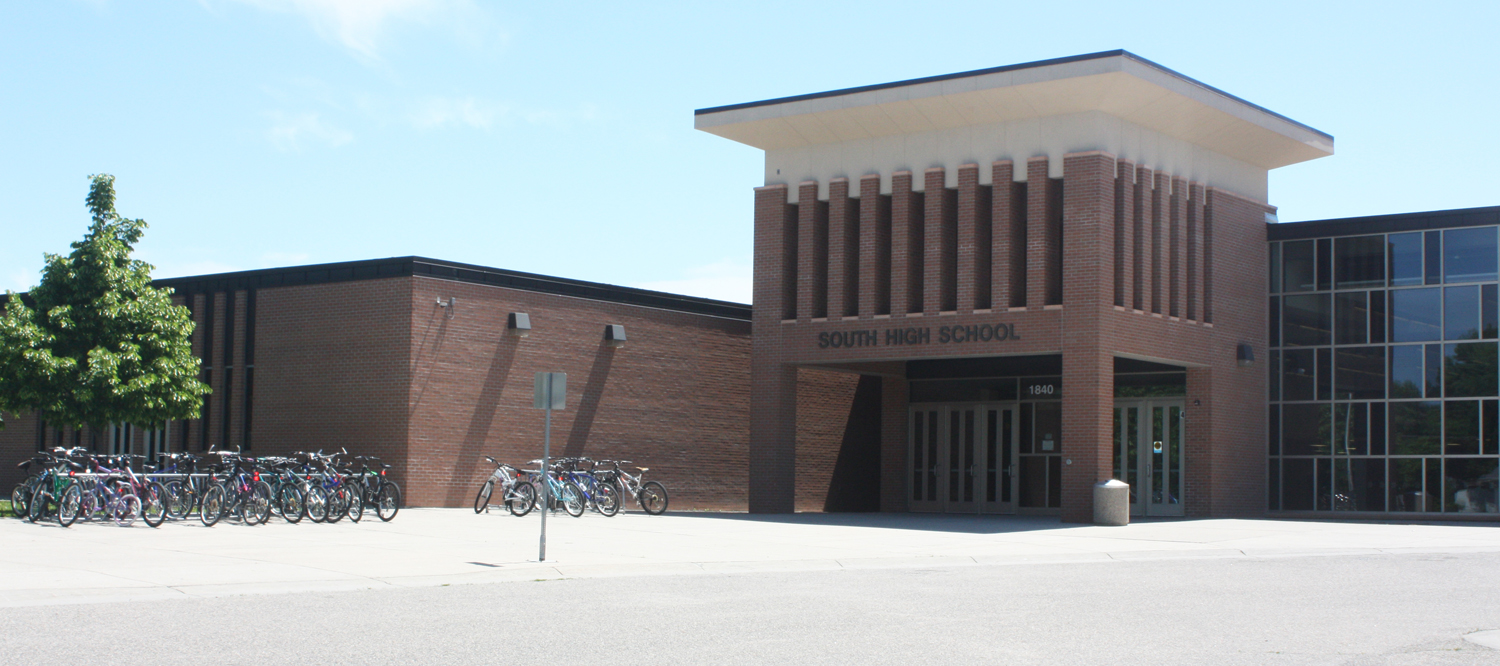 South High School, located in Fargo, ND; as seen from the south entrance to the school building.